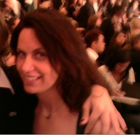 sf fashion week last night where i met janice dickinson, the "first" supermodel